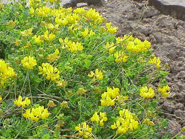 Species: Coronilla minima Family: Fabaceae Image No. 9